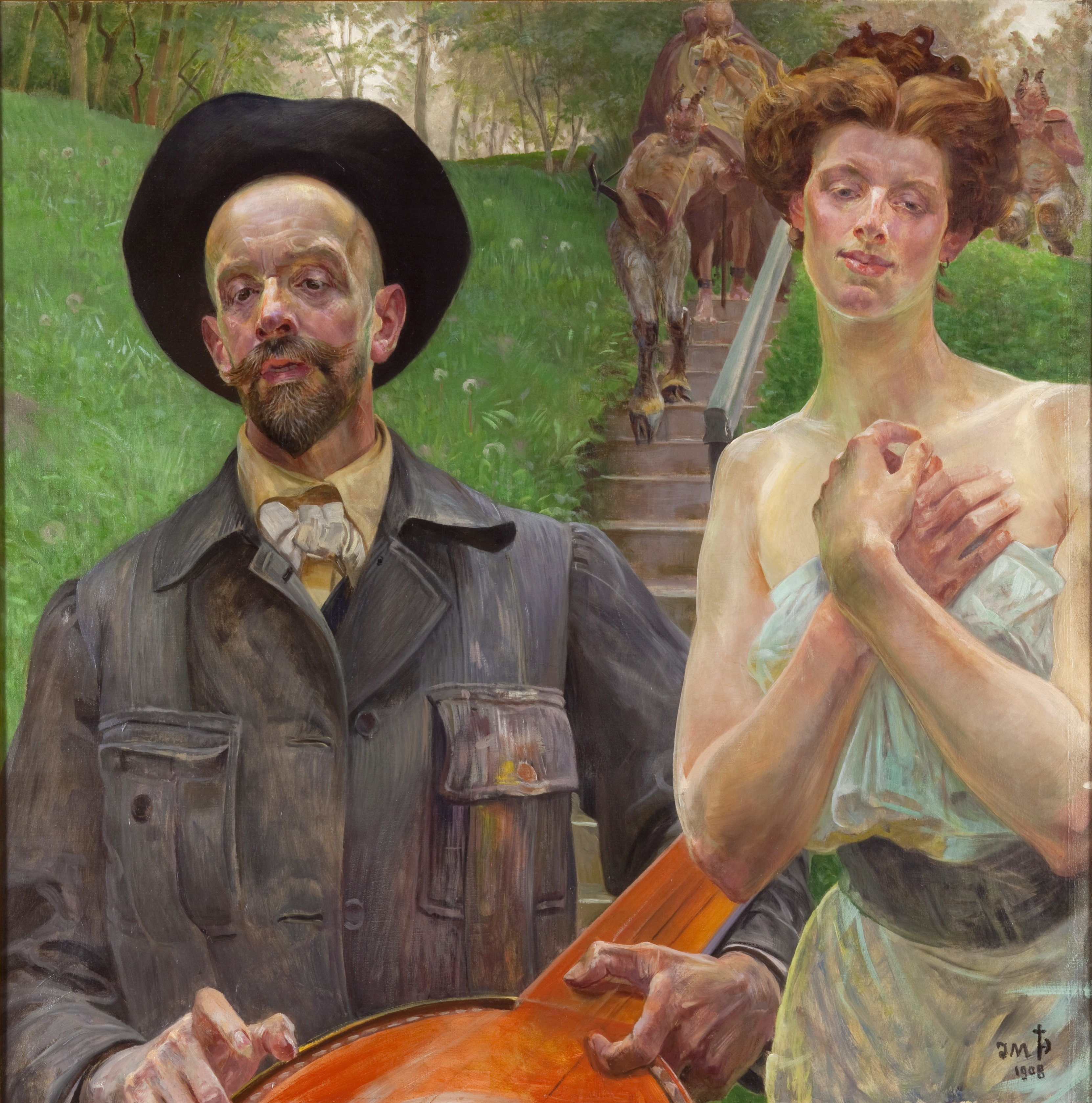 Jacek Malczewski, Self-portrait with a muse (1908), Jacek Malczewski Museum in Radom, Poland